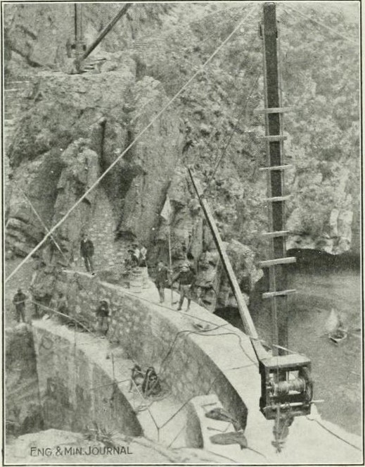 Llalluga Dam - Hydro-Electric Plant at a Bolivian Tin Mine (The Engieering & Mining Journal, 2 Jan 1915)